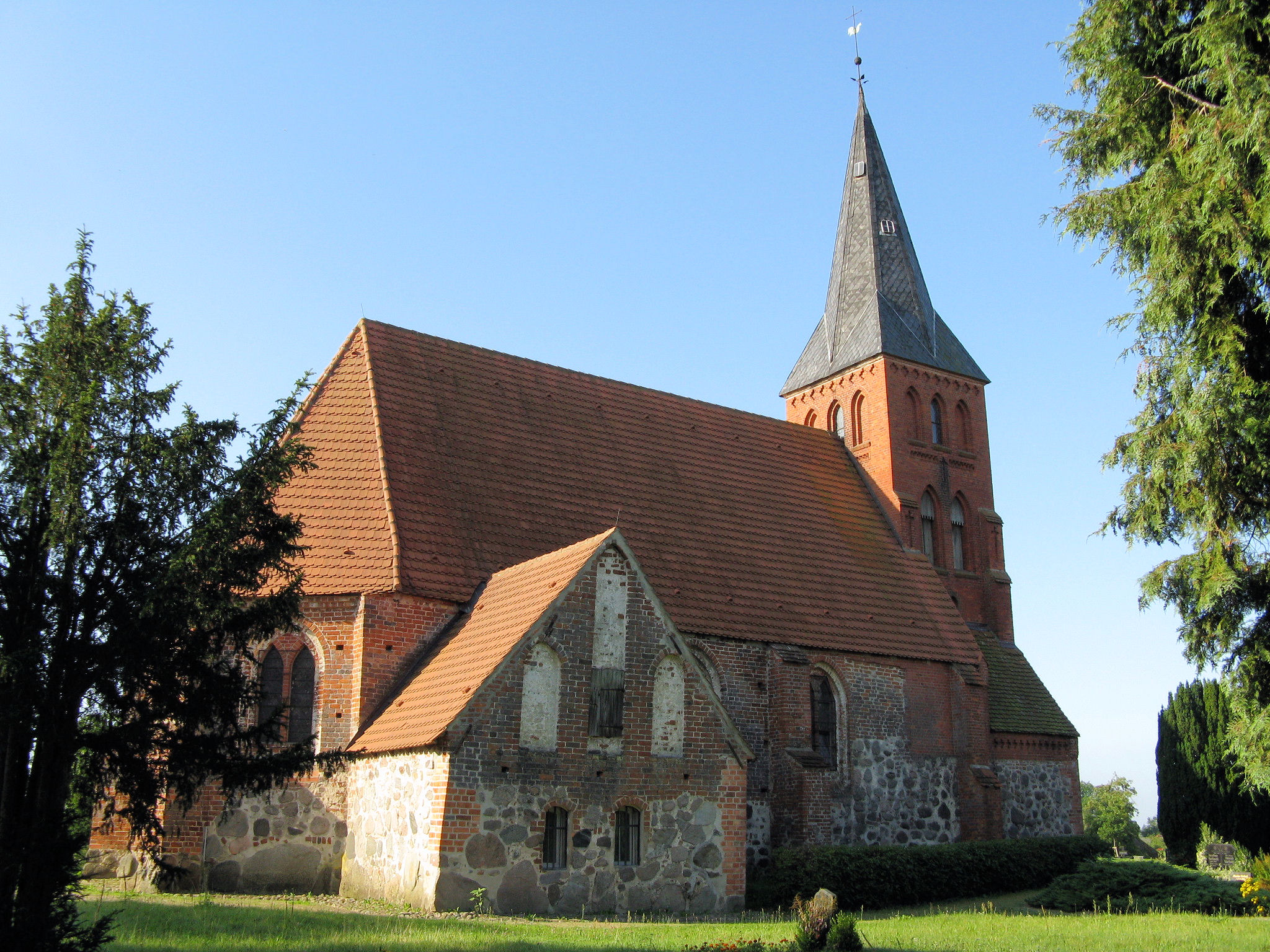 Church in Qualitz, disctrict Güstrow, Mecklenburg-Vorpommern, Germany